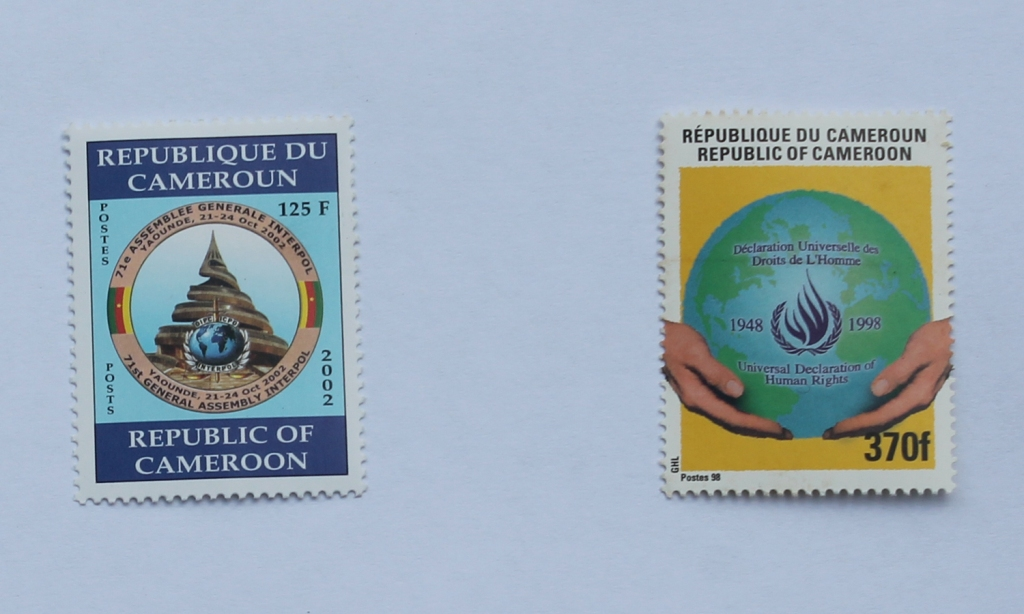 Timbre postal du Cameroun